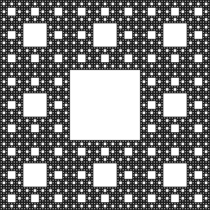 Sierpinski carpet after 6 iterations